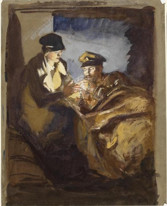 A World War One Voluntary Aid Detachment nurse lighting a cigarette for a patient inside a ambulance